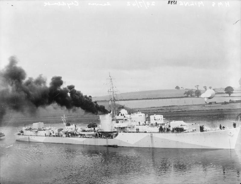 Photograph of British destroyer HMS Milne, on completion.